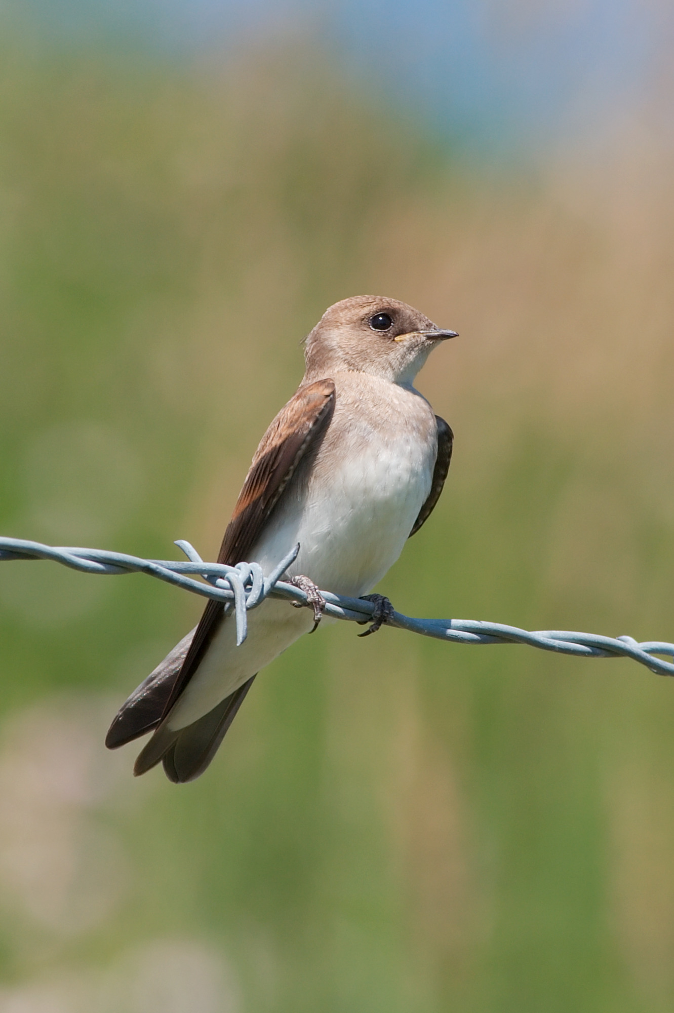 Northern rough-winged swallow (Stelgidopteryx serripennis), taken in Milwaukee, Wisconsin.